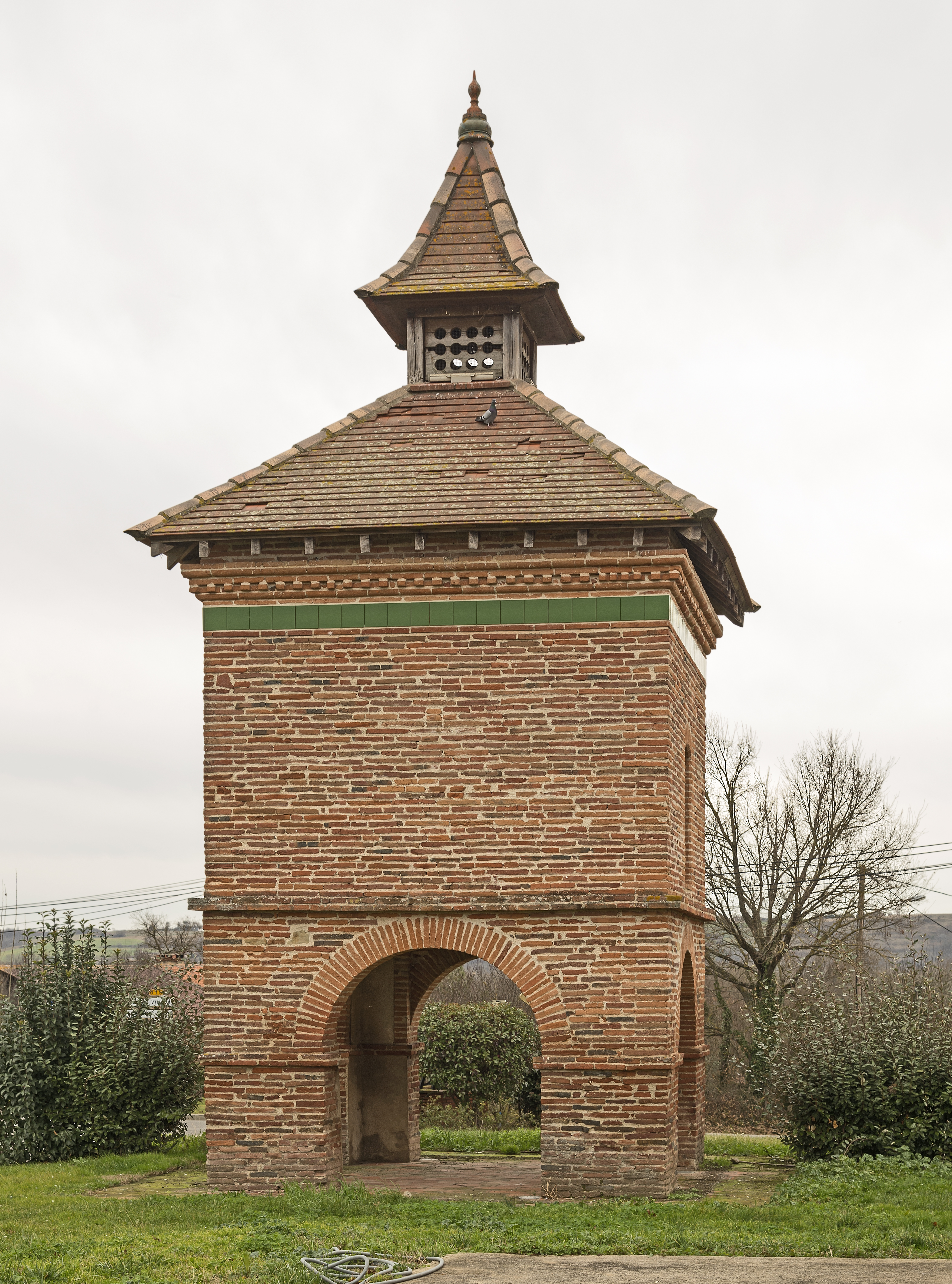 La Magdelaine-sur-Tarn, dovecote tower, eighteenth century.